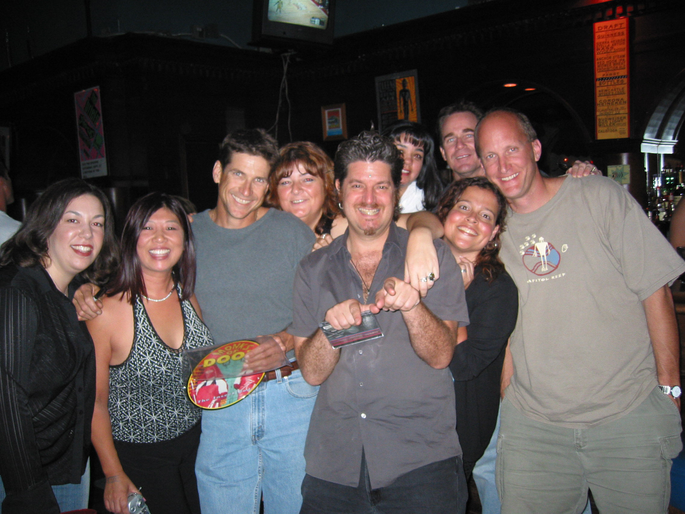 bottom of the hill, sf.